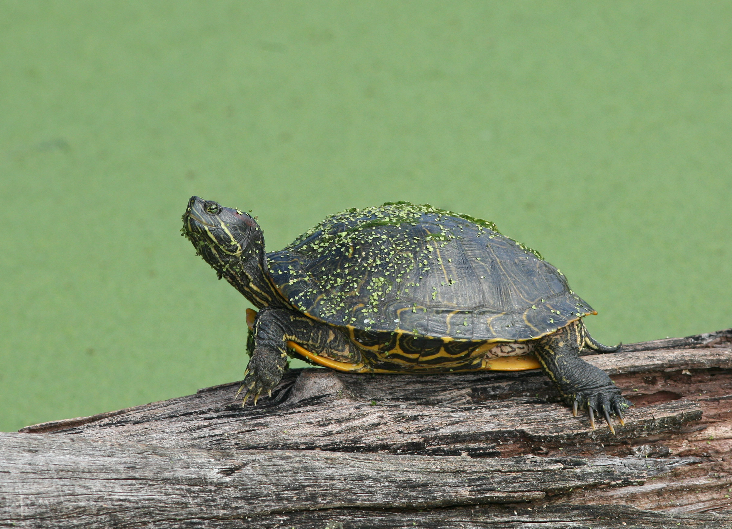 Red Eared Slider (Trachemys scripta elegans) with duckweed